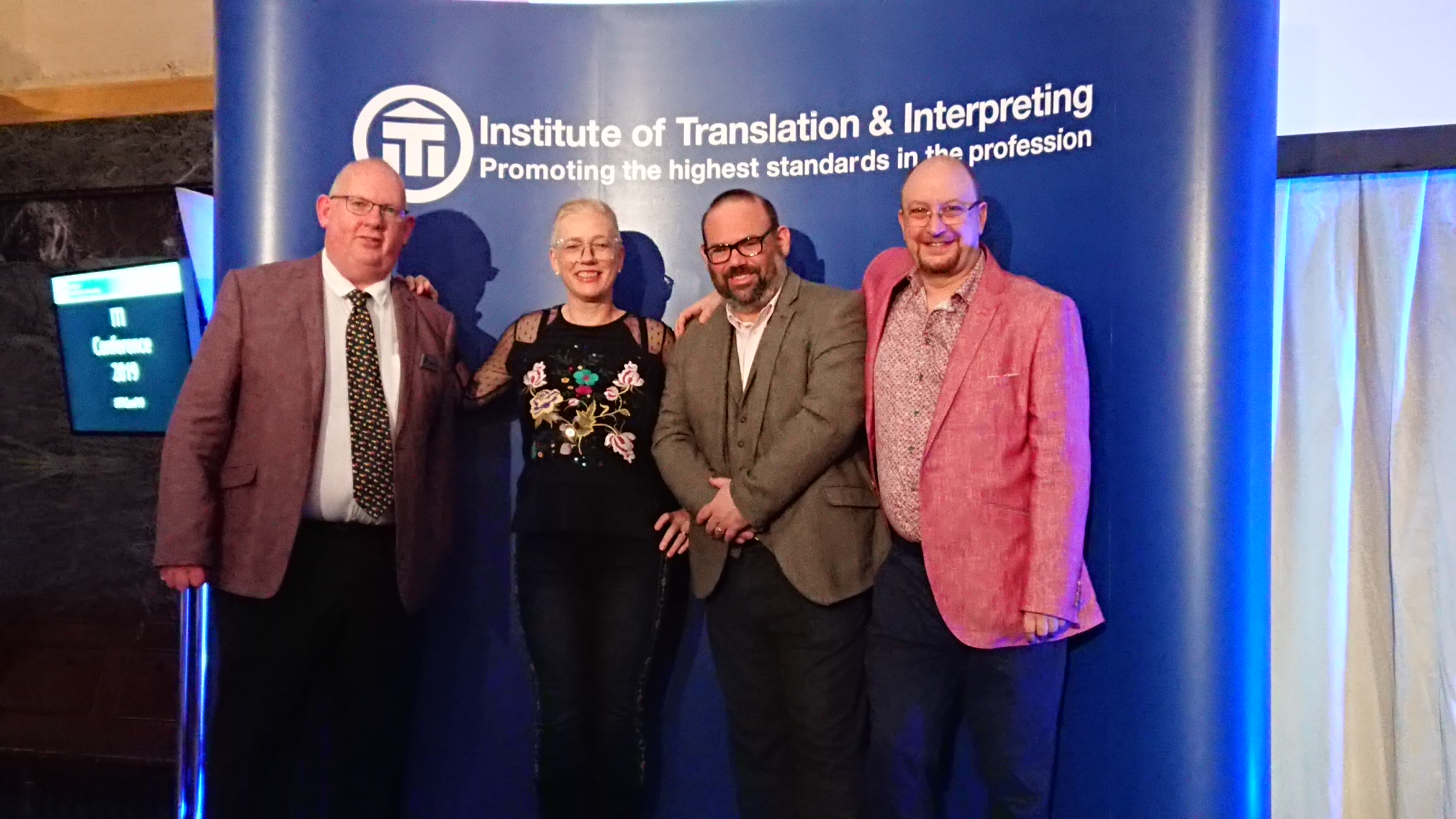 The four most recent ITI Chairs, photographed at the ITI's conference in Sheffield. From left to right, Paul Appleyard, Sarah Bawa Mason, Iwan Davies and Nick Rosenthal